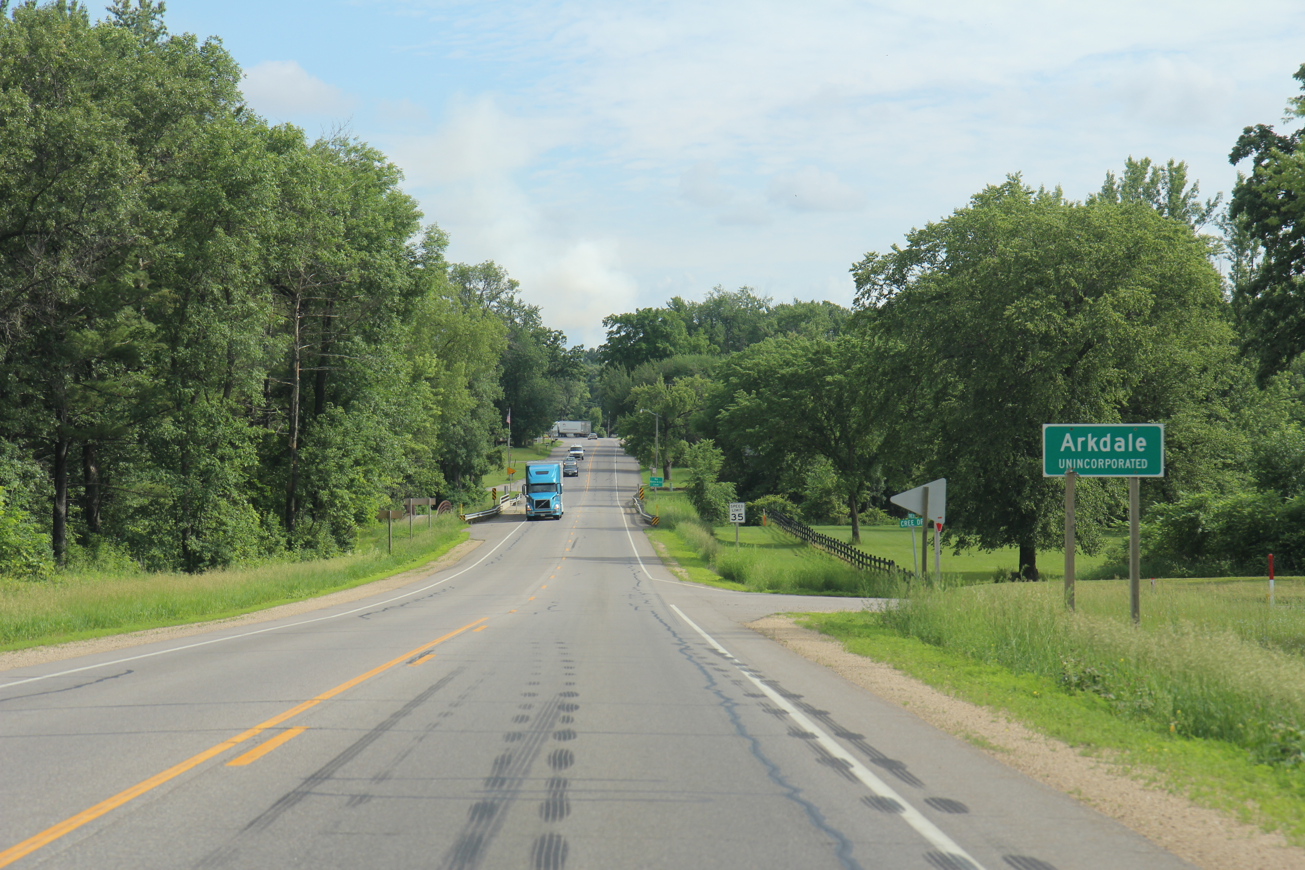 Looking south at the sign for Arkdale, Wisconsin on Wisconsin Highway 21.